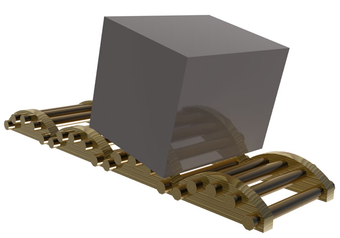 Технология строительства пирамид